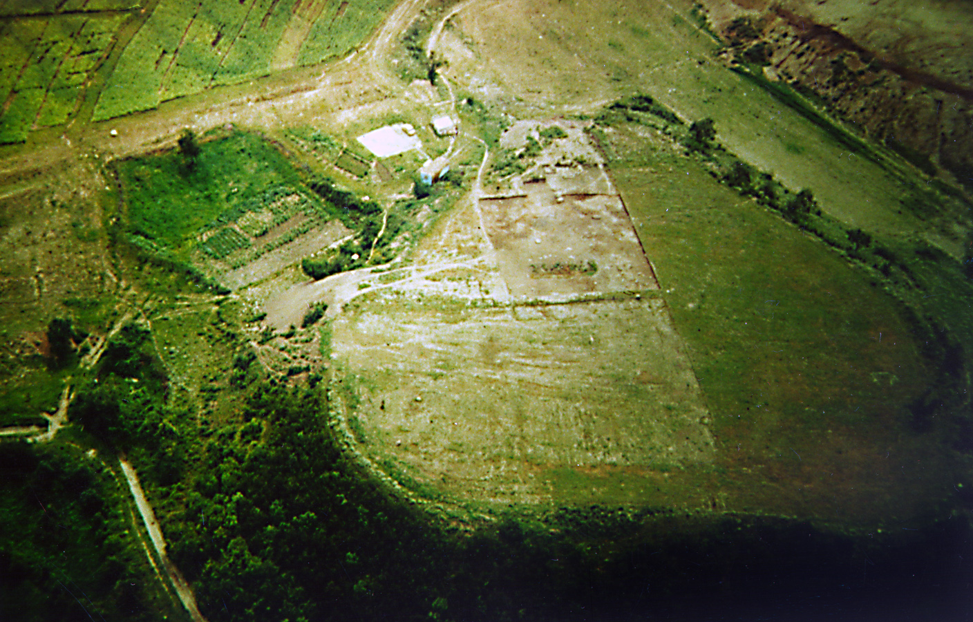 This photo is provided by the Historical Museum in Dupnitsa and is included in the album "Dupnitsa through the centuries" („Дупница през вековете“). Dupnitsa Municipality, Historical Museum - Dupnitsa. ISBN 978-954-8187-89-3.